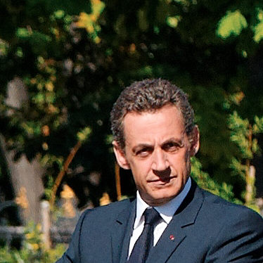 Nicolas Sarkozy reviewing troops during the Bastille Day 2008 military parade on the Champs-Élysées, Paris.